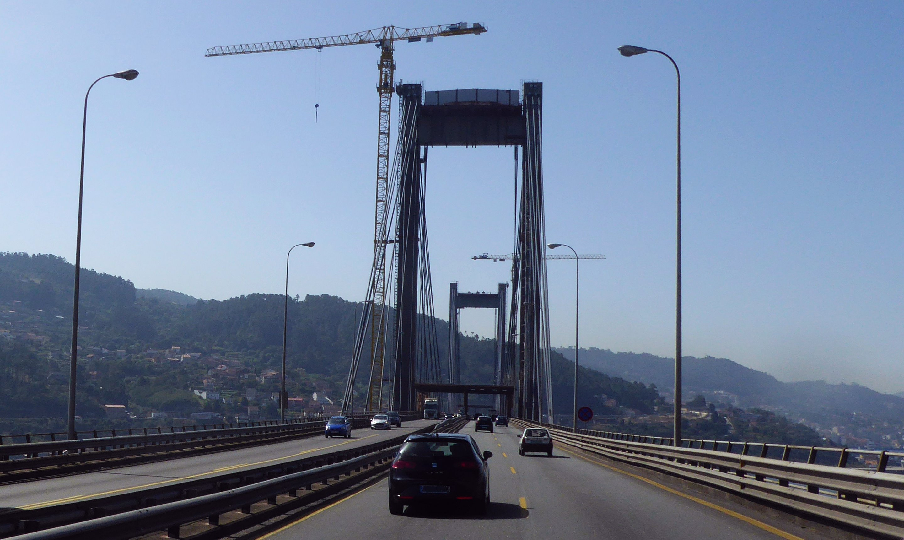 Rande Bridge 1978 cable-stayed bridge length 1558 m height 152 m highway AP-9 crossing River Vigo Spain Photo 2016 Wolfgang Pehlemann